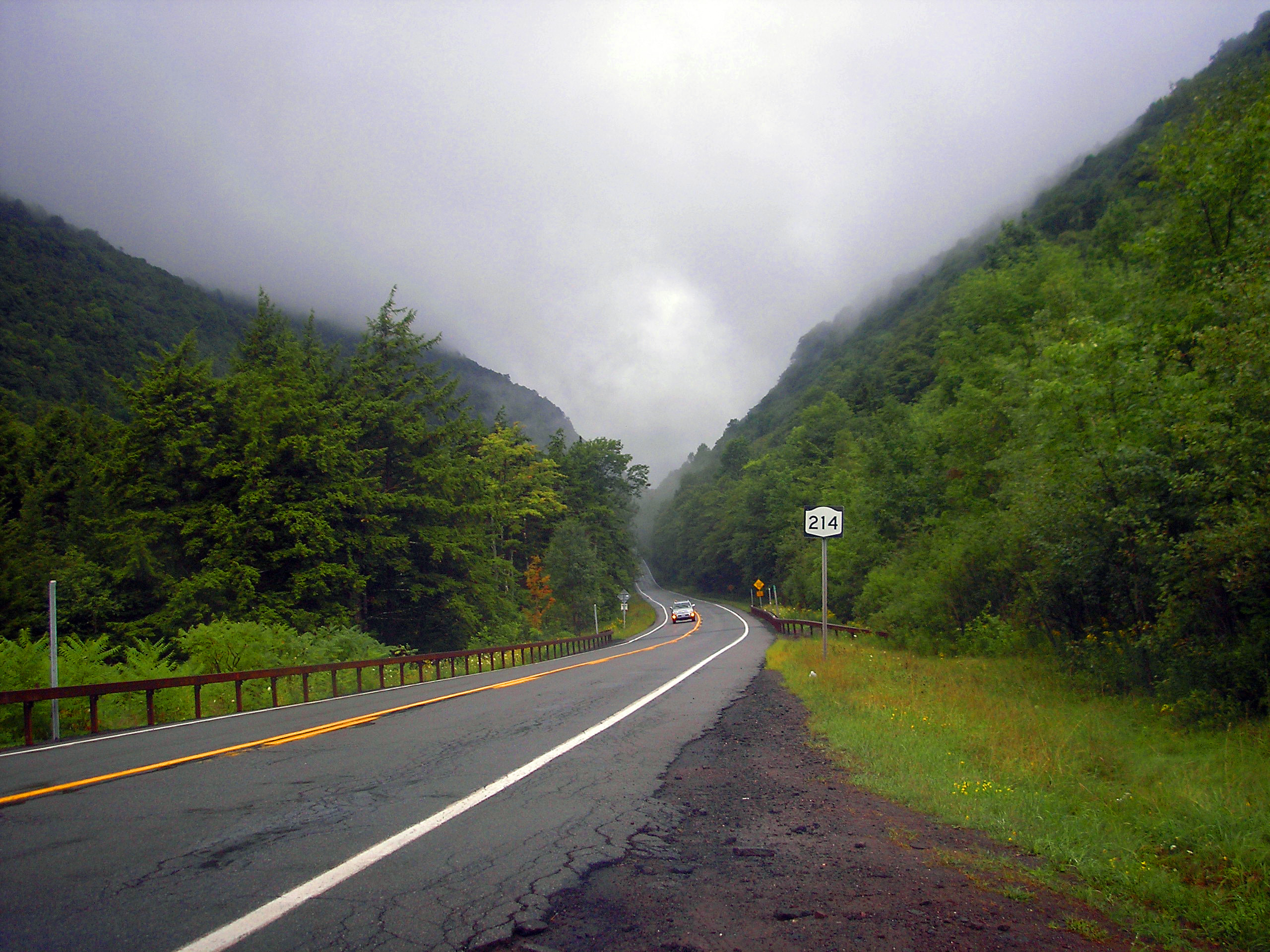 Southbound view along NY 214 into Stony Clove Notch